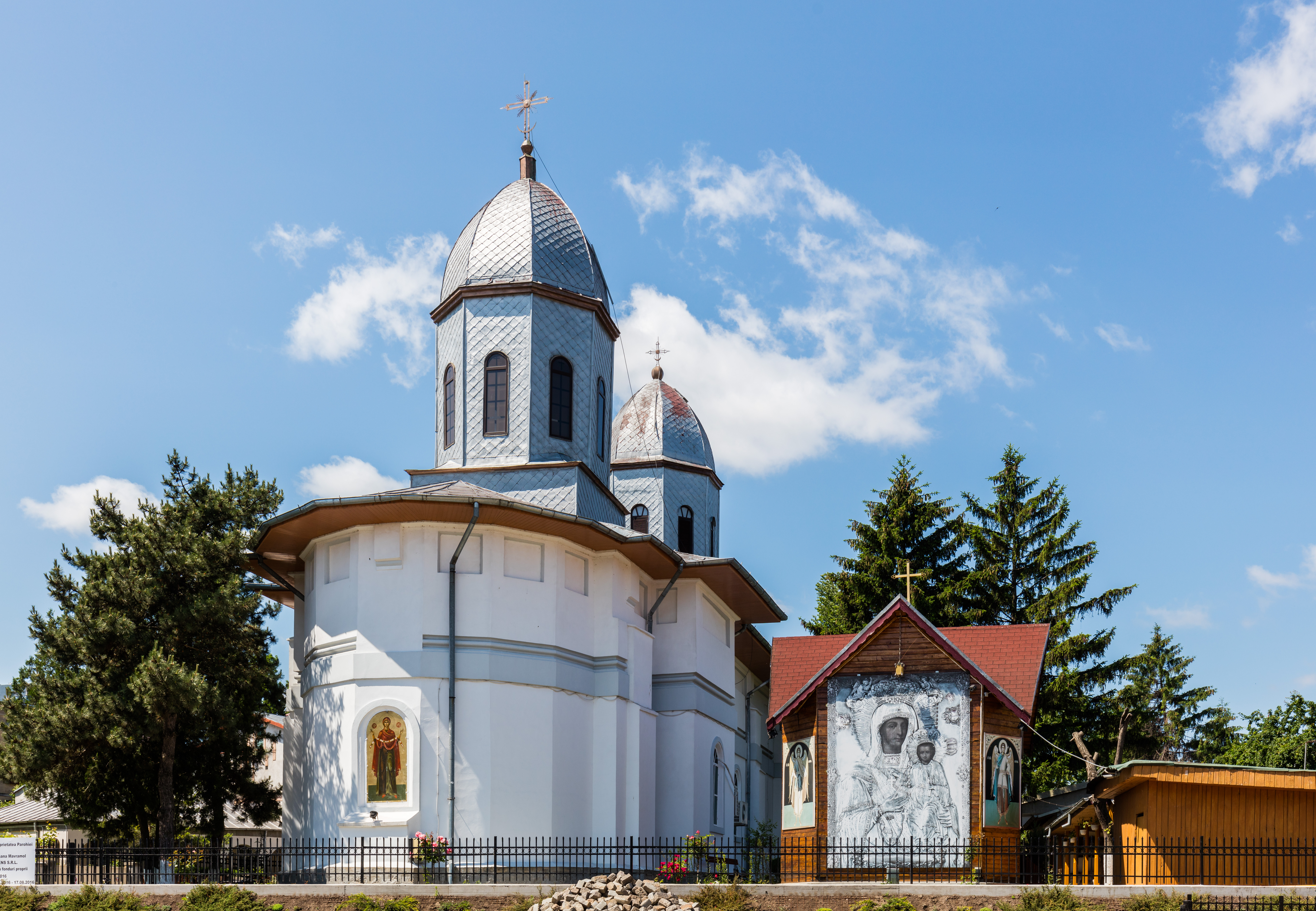 Mavromol church, Bucharest, Romania 01